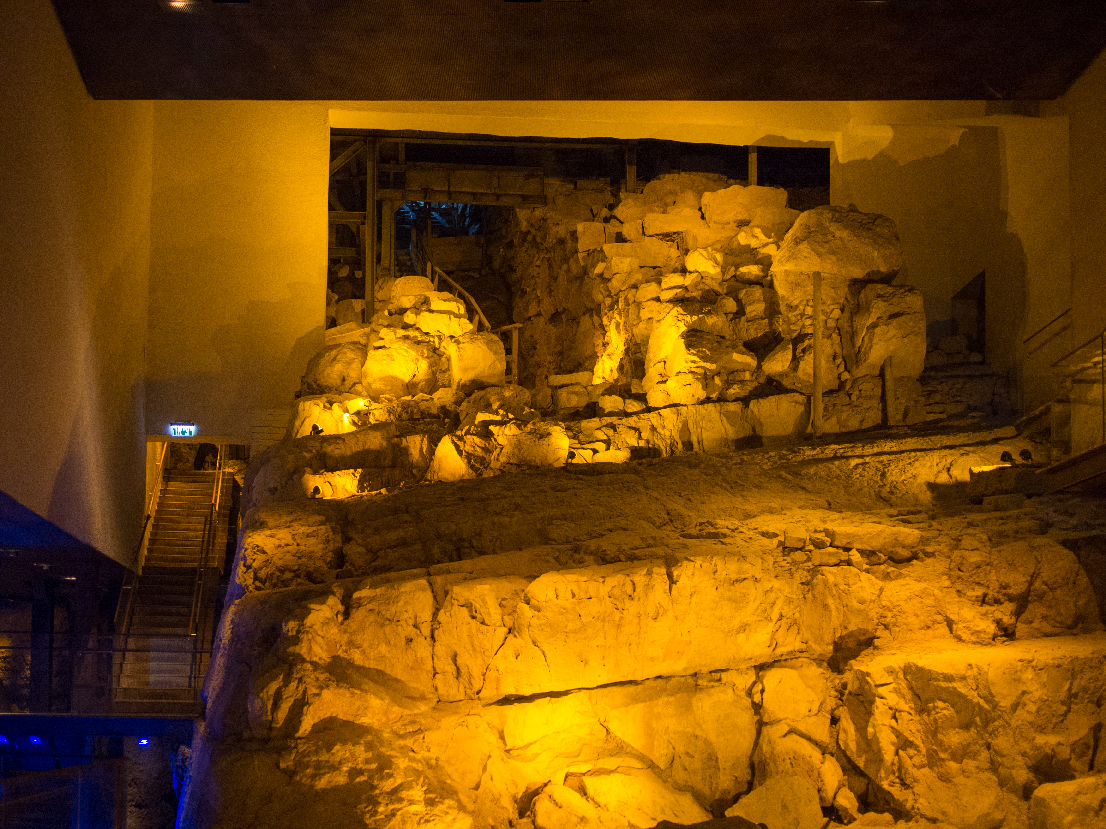 Remains of the Gihon Spring tower in Jerusalem.